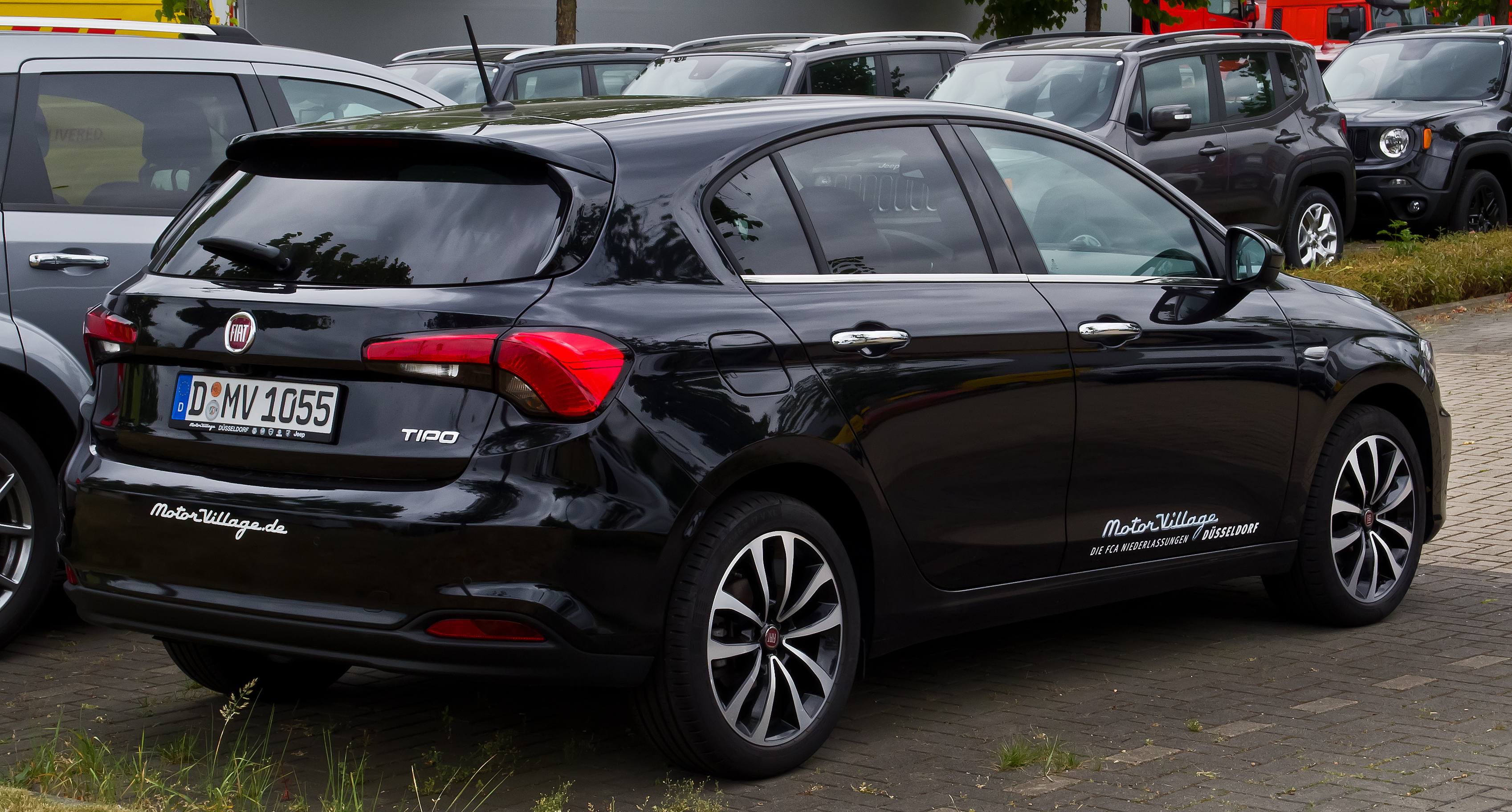 Fiat Tipo 1.4 T-Jet Lounge (II)